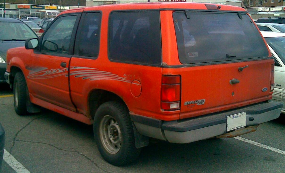 1991-1994 Ford Explorer Sport photographed in Montreal, Quebec, Canada.